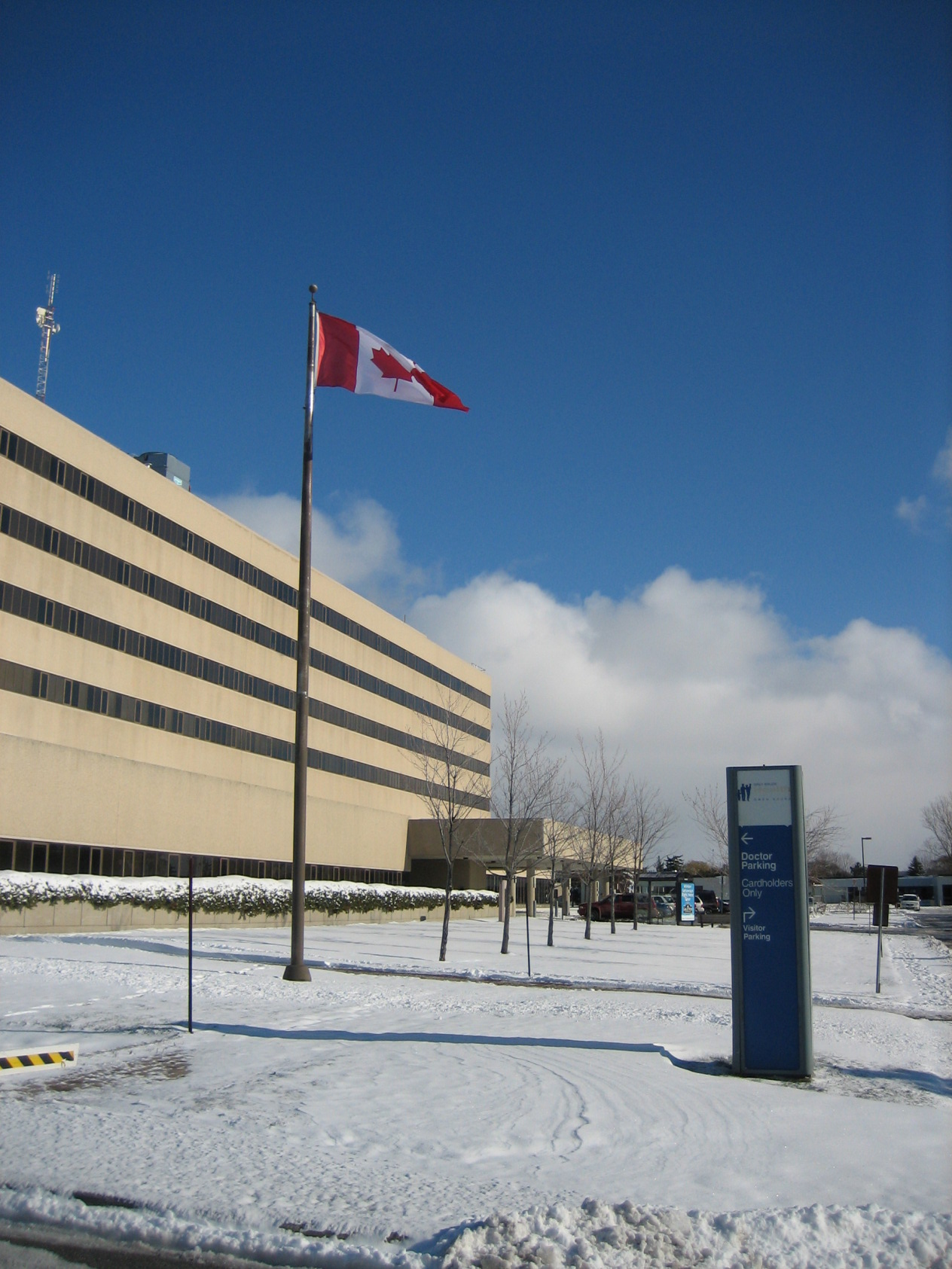 Owen Sound Hospital (Grey Bruce Health Services) in Owen Sound, Ontario, Canada. 2007.